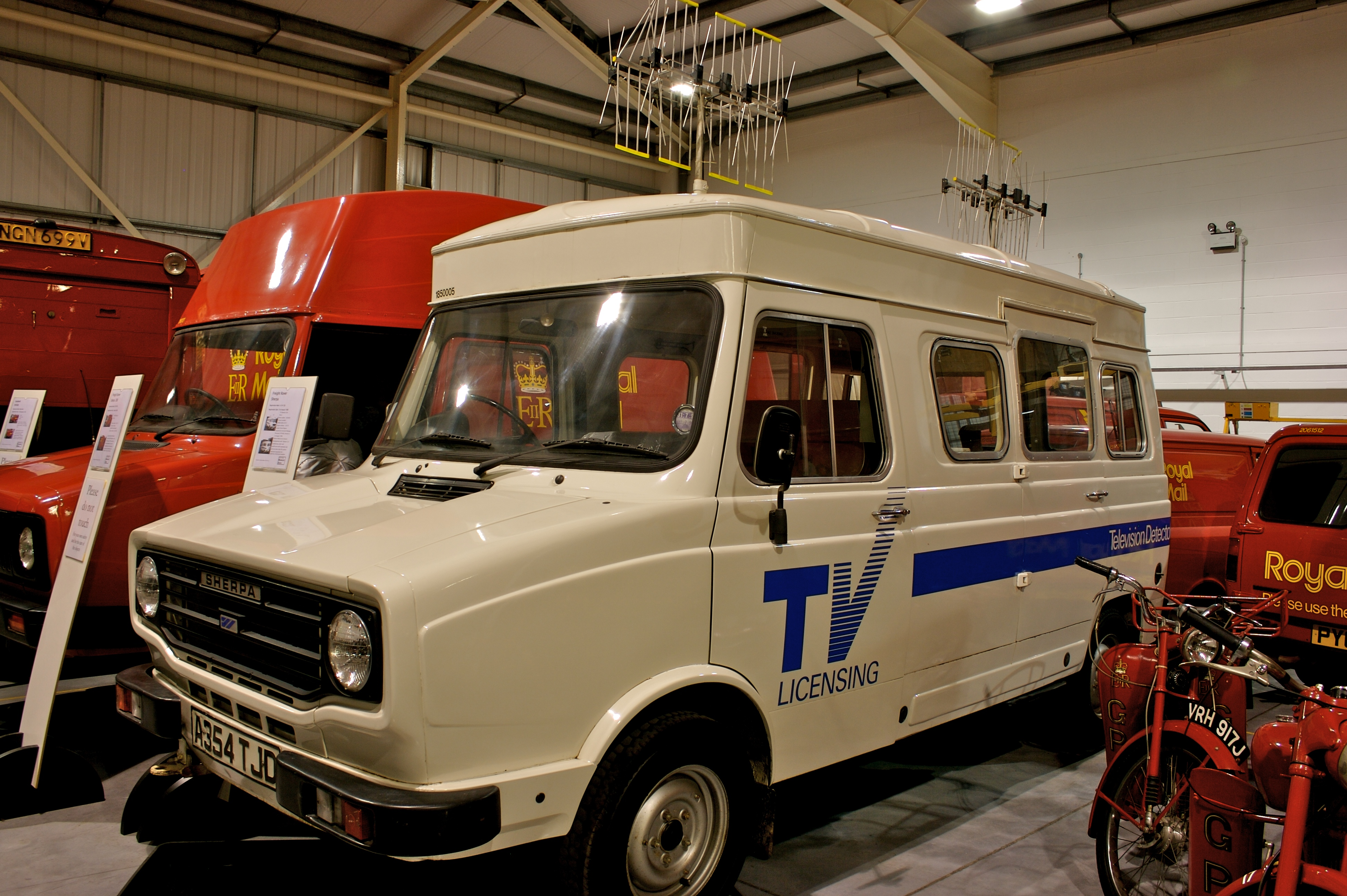 TV Detector Van. Freight Rover Sherpa. A354 TJD. Registered 31st August 1983. The exterior of the van is white with a blue stripe down the sides of the vehicle, beginning behind the front doors and ending at the back. These stripes have the words 'Television Detector' in white toward the rear of the vehicle on each side. On each front door and the rear offside door are the large letters 'TV' in blue with a smaller 'Licensing' below. There are brackets for a fire extinguisher in the cab (no fire extinguisher present), a fire extinguisher is mounted in the rear of the vehicle. The cab is fitted with a driver's and bench seats. The rear of the van has two bench seats and a swivel type seat at the centrally installed console. There are two rectangular, flat, detector type aerials mounted vertically on the roof following the central axis of the van (front to rear). The rear of the van can be accessed via the two doors at the rear, or a door midway along the nearside. The fleet number (1850005) is shown at the top of the rear nearside door and above the front windscreen on the offside. Collection ID OB1997.257.